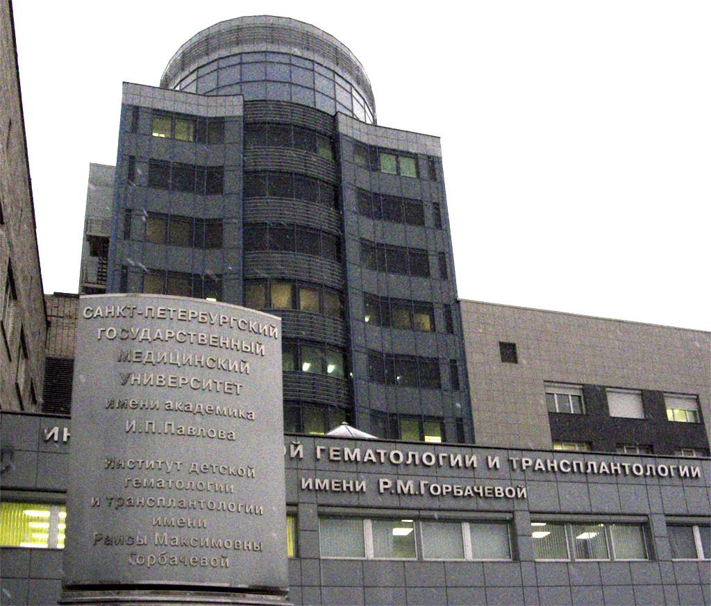 Saint-Petersburg Pavlov state medical university and Institute Raisa Gorbachyova of infantile haematology and transplantology.